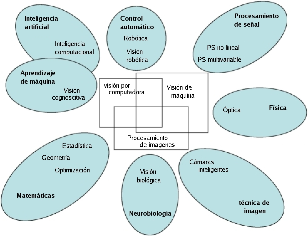 Overview of relations between computer vision and other fields. SPANISH: Esquema de relaciones entre visión por computadora y otras áreas afines.